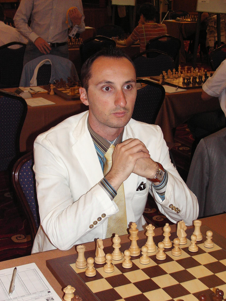 GM Veselin Topalov (Bulgaria), Heraklion 2007